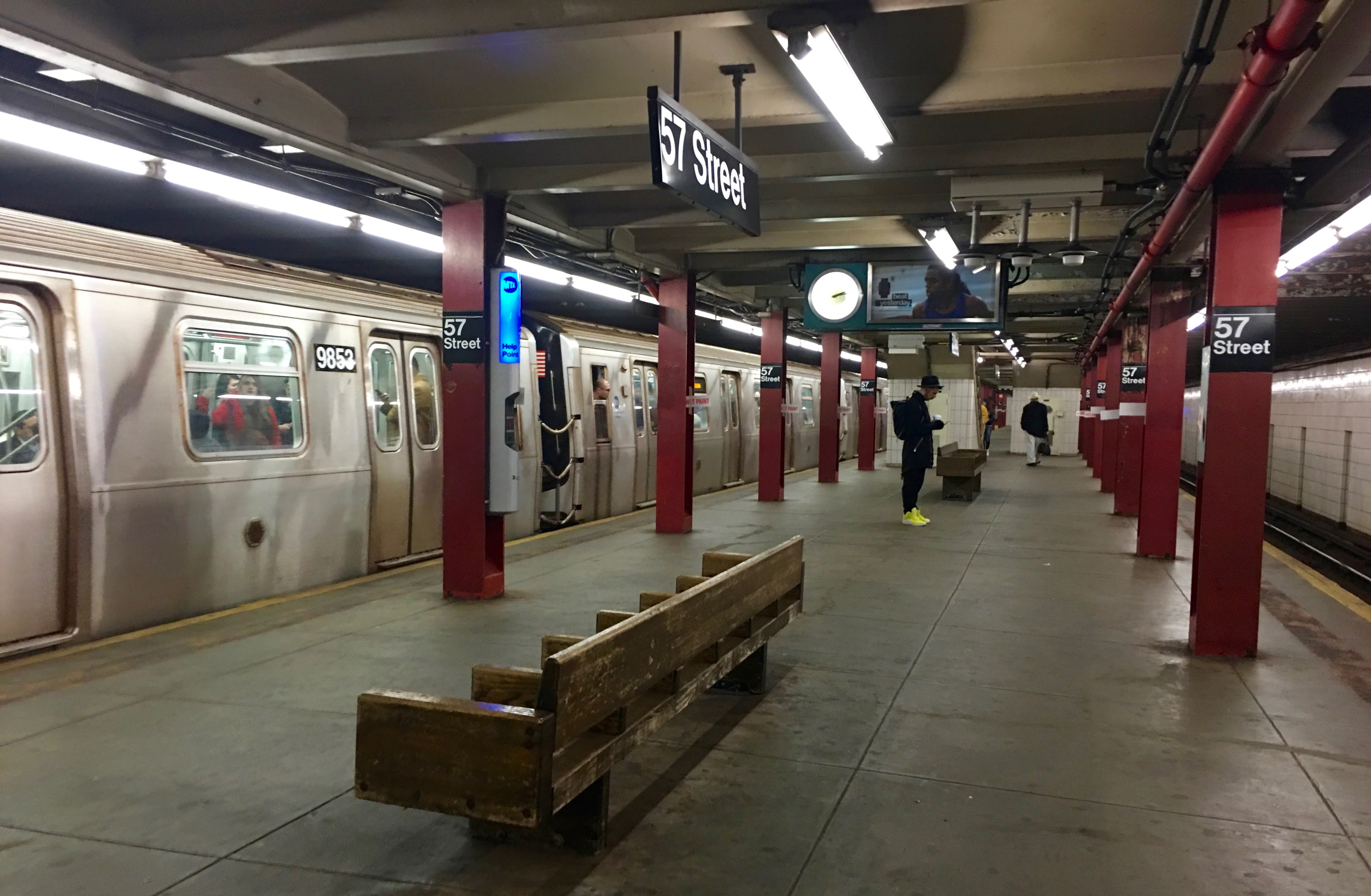 Platform at 6th Av/57th St on the F.